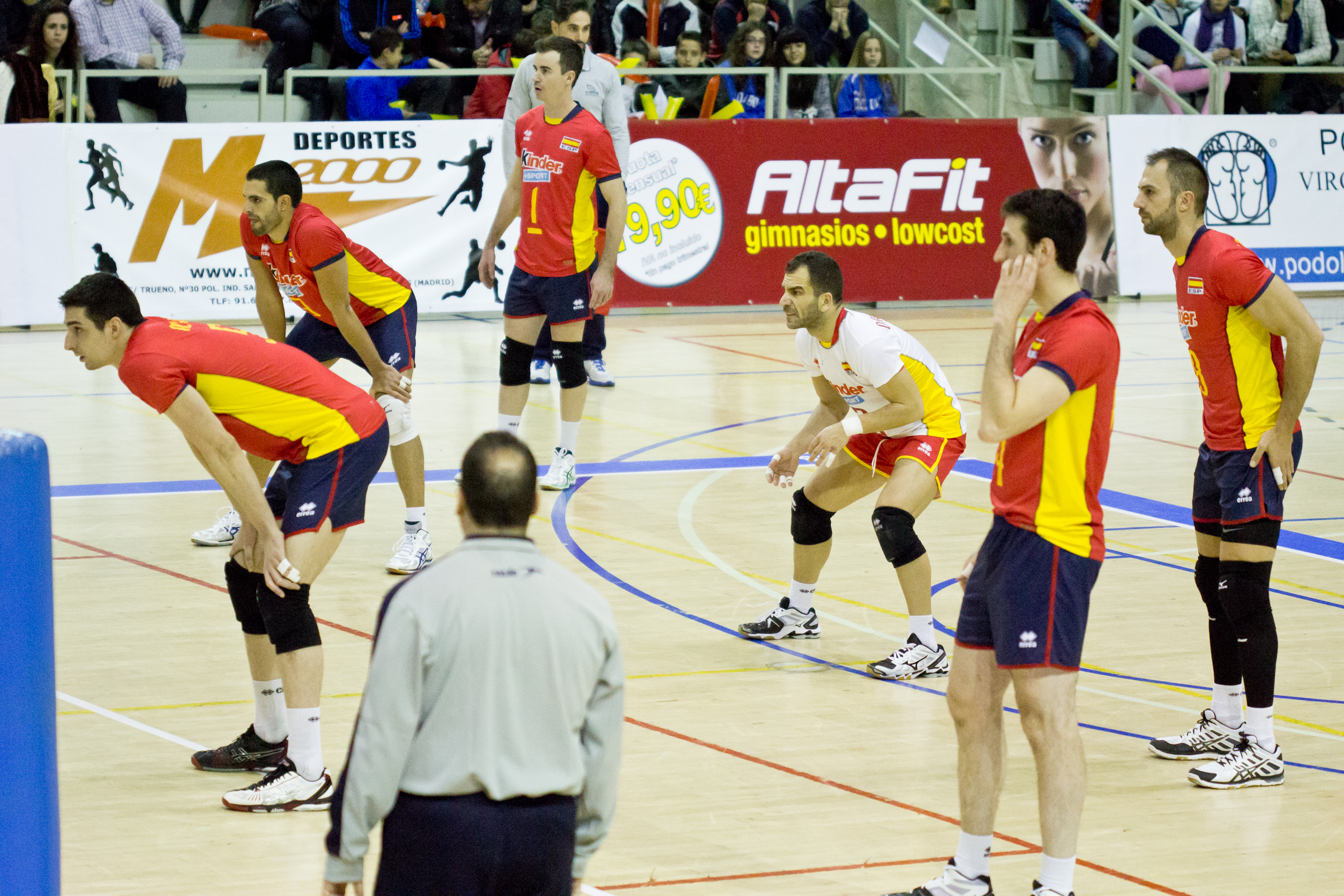 Spain men's national volleyball team in Leganés, Spain.